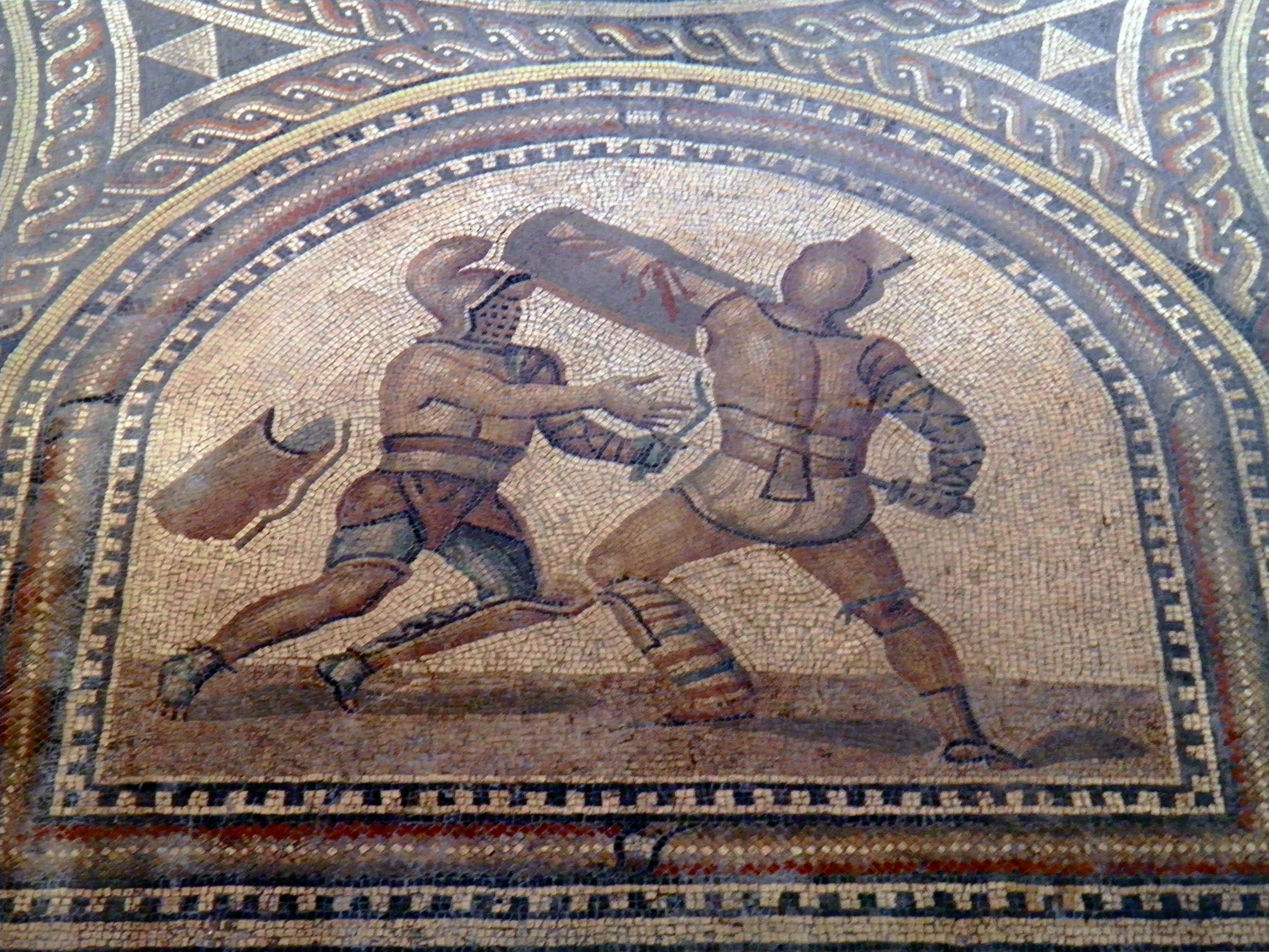 Found during construction work in 1893, the 58 square metre mosaic floor quickly became one of the leading attractions of the health-resort city. Its hypocaust heating system is completely preserved. A walk through the understructure of the mosaic provides a view of the underside of the floor and reveals the principle and functionality of the Roman hypocaust system. The lively picture of the main mosaic depicts a scene in an amphitheatre. This is surrounded by a group of pictures alternating between gladiator and animal fights. The Thraex (plural Thraeces, "Thracians") wore the same protective armour as the hoplomachi with a broad-rimmed helmet that enclosed the entire head, distinguished by a stylized griffin on the protome or front of the crest (the griffin was the companion of the avenging goddess Nemesis), a small round or square-shaped shield (parmula), and two thigh-length greaves. His weapon was the Thracian curved sword (sica or falx, c. 34 cm/13 in long). They were introduced as replacements for the Gauls after Gaul made peace with Rome. They commonly fought Myrmillones or Hoplomachi. The murmillo (plural murmillones) or myrmillo wore a helmet with a stylised fish on the crest (the mormylos or sea fish), as well as an arm guard (manica), a loincloth and belt, a gaiter on his right leg, thick wrappings covering the tops of his feet, and a very short greave with an indentation for the padding at the top of the feet. The murmillo carried a gladius (40–50 cm long) and a tall, oblong shield in the legionary style. Murmillones were typically paired with Thraecis, but occasionally with the similar hoplomachi.